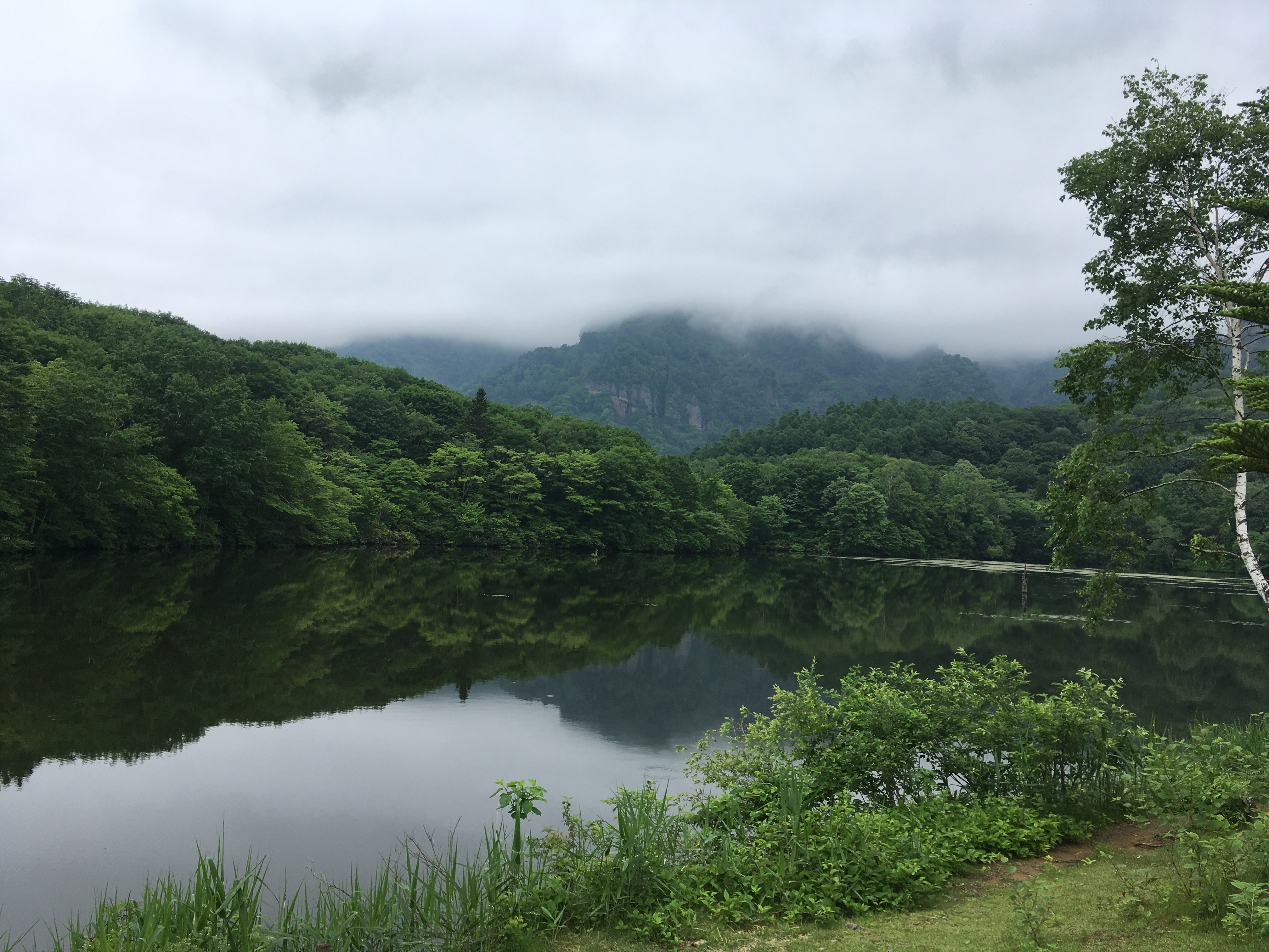 This is a photo of Kagami-ike Pond in Myoko-Togakushi Renzan National Park, Nagano, Japan.